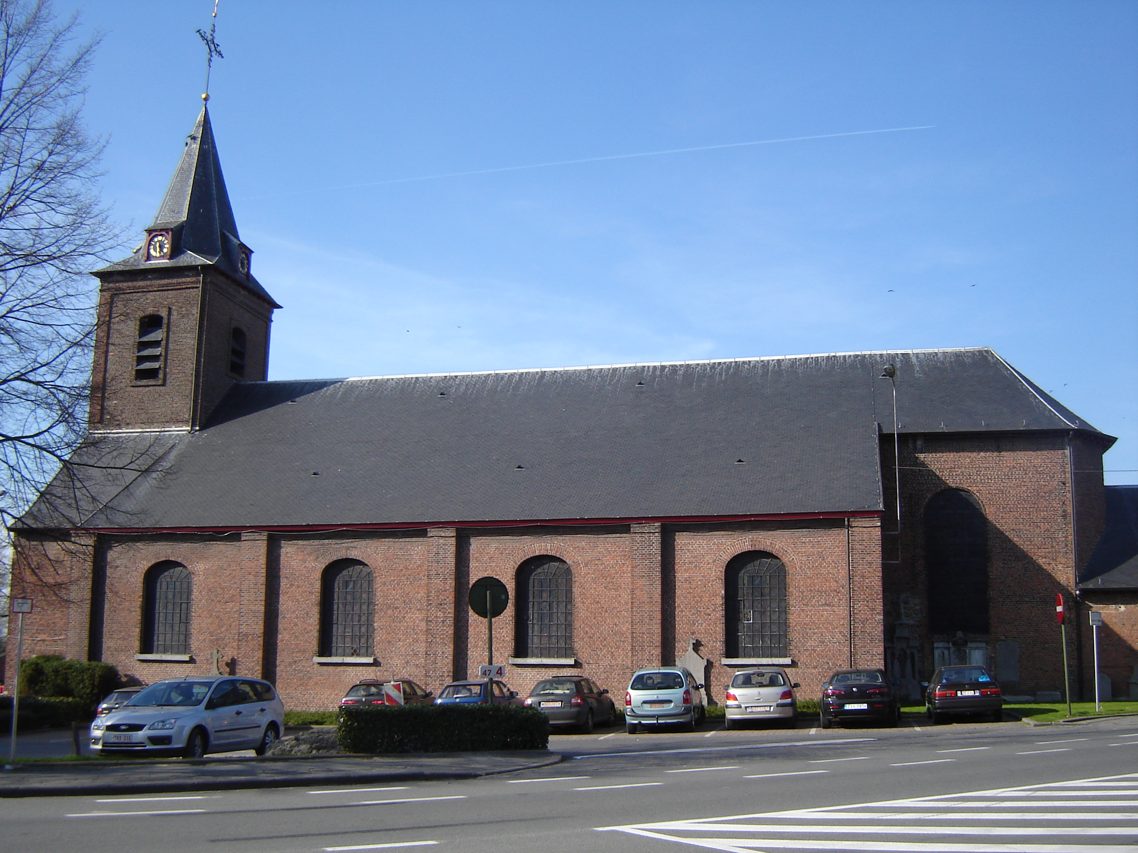 Church of Saint Cornelius in Aalbeke, Kortrijk, West Flanders, Belgium